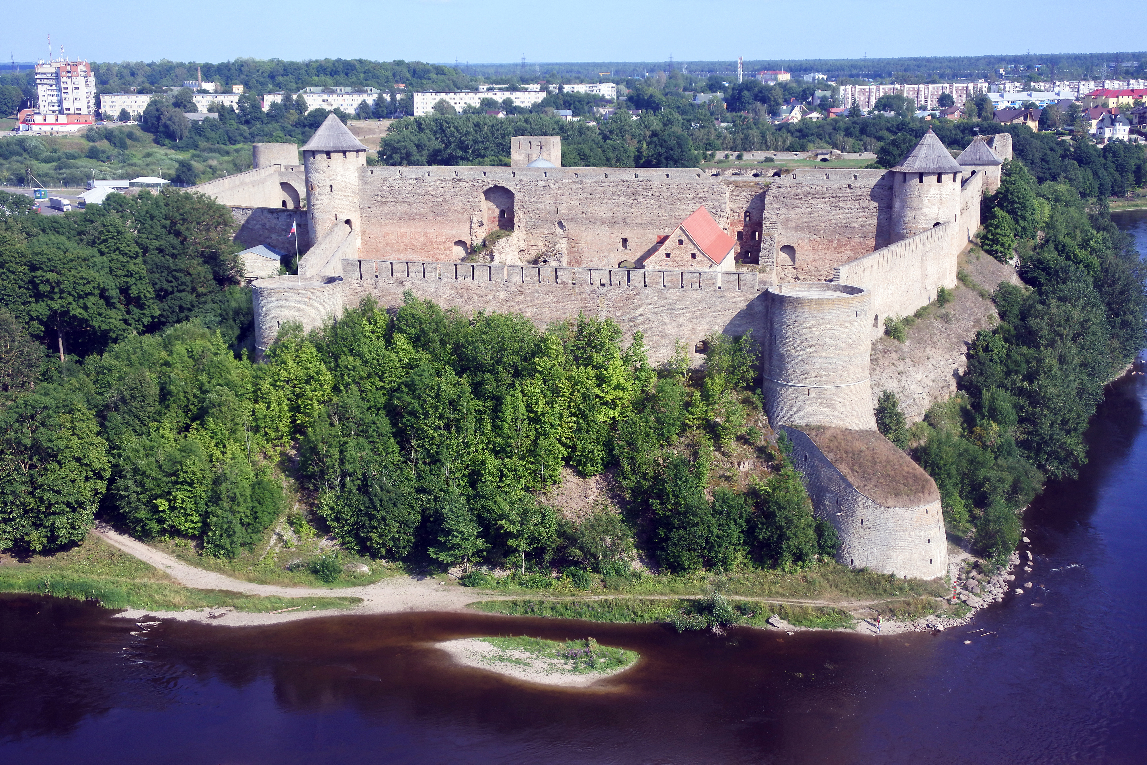 Ivangorod Fortress on the Narva River, western Russia.